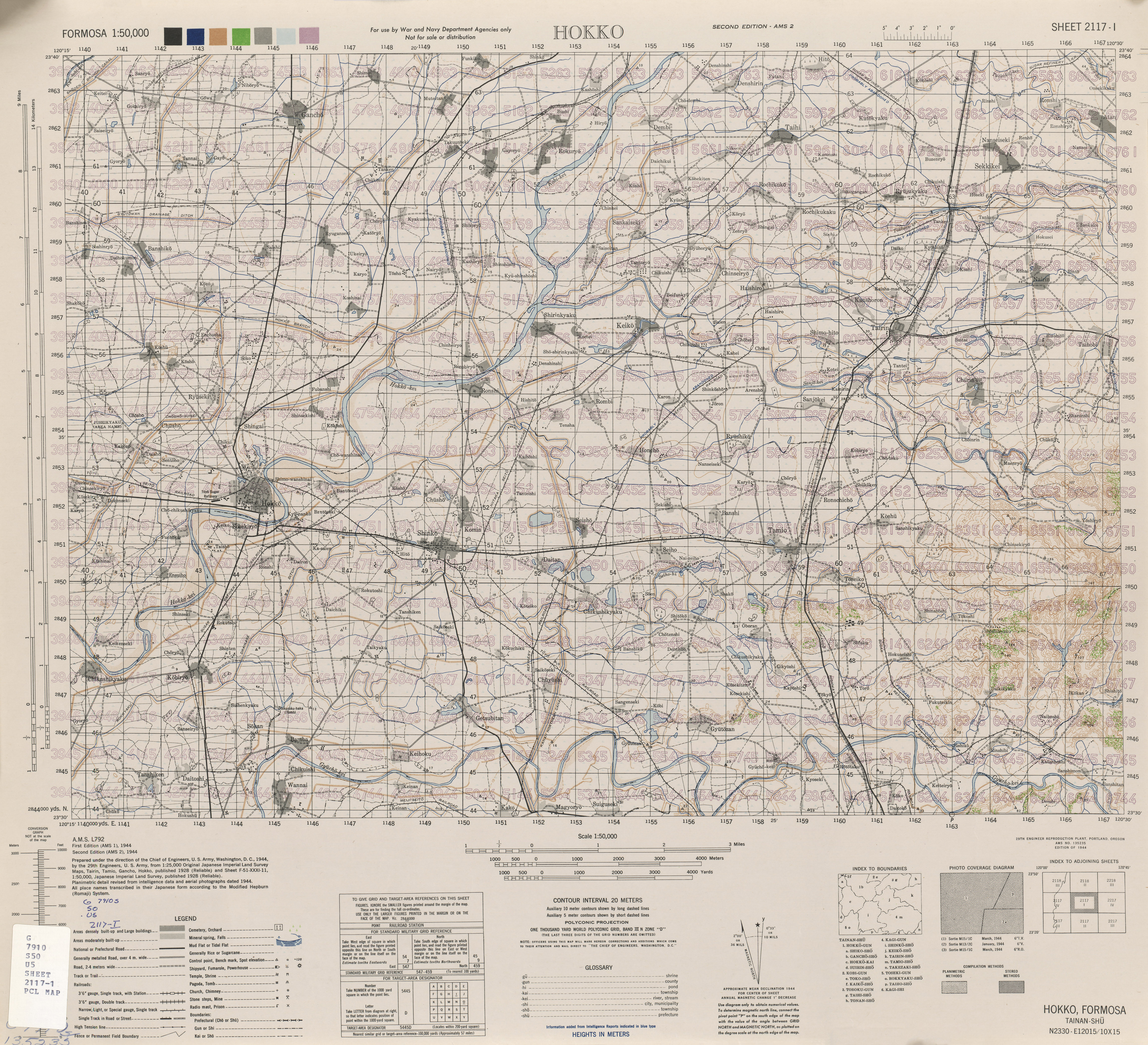 Map from Formosa (Taiwan) 1:50,000 AMS Series L792